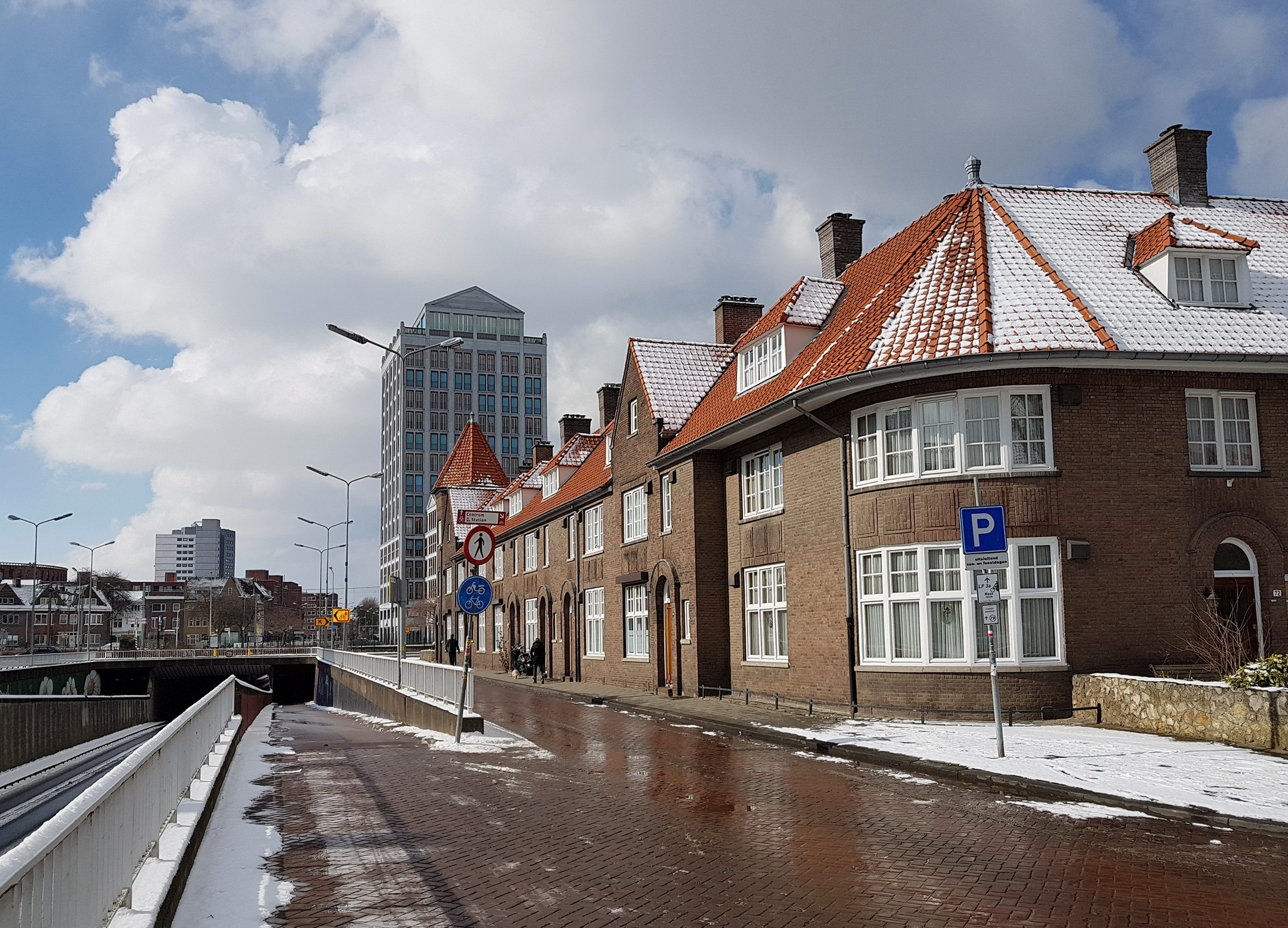 Snowy street view in Wyckerpoort, Maastricht, the Netherlands. To the left: the Scharnerweg tunnel. Centre: De Colonel (office tower).